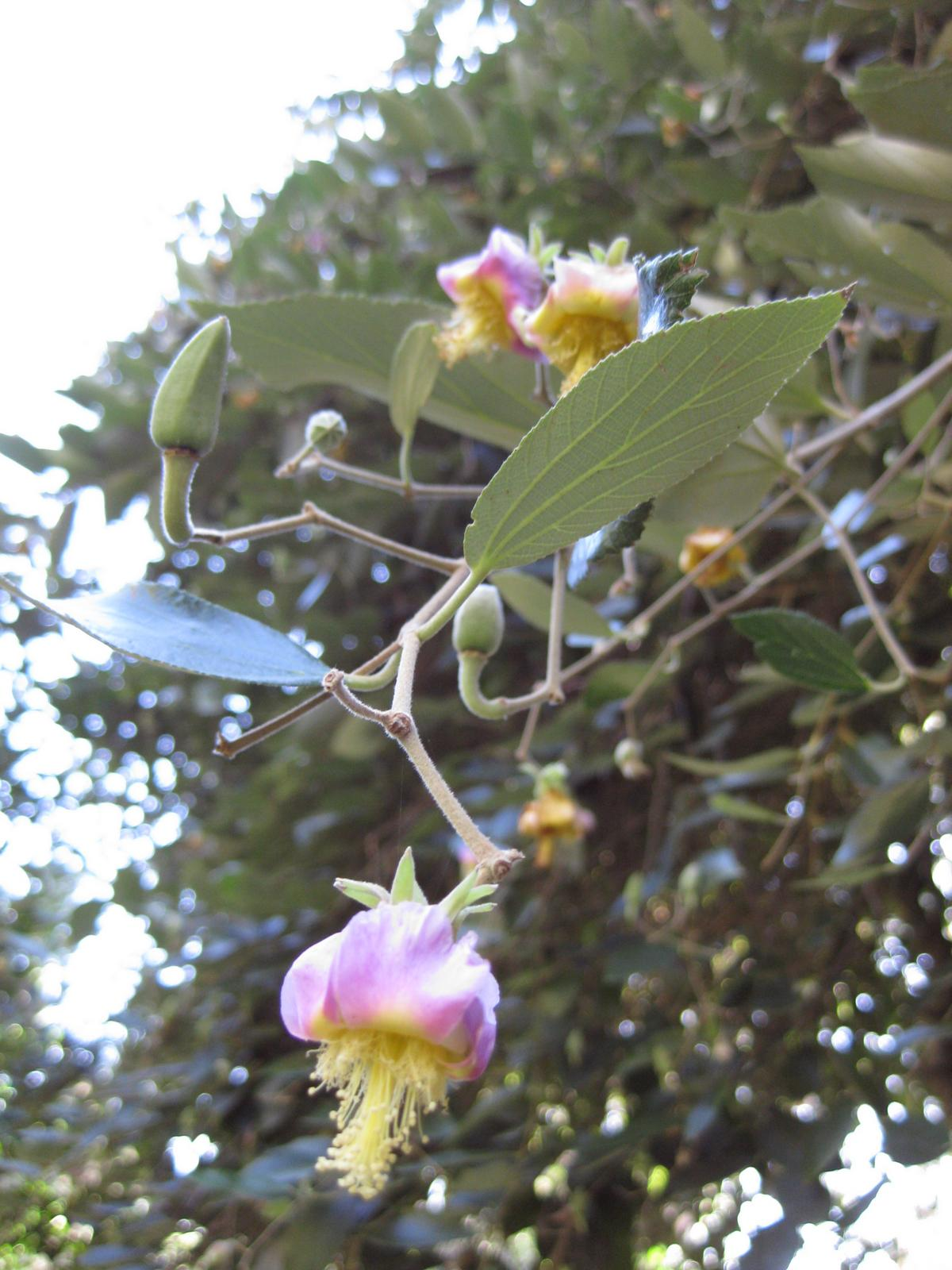 Photographed at Huntington Gardens (Los Angeles) in October